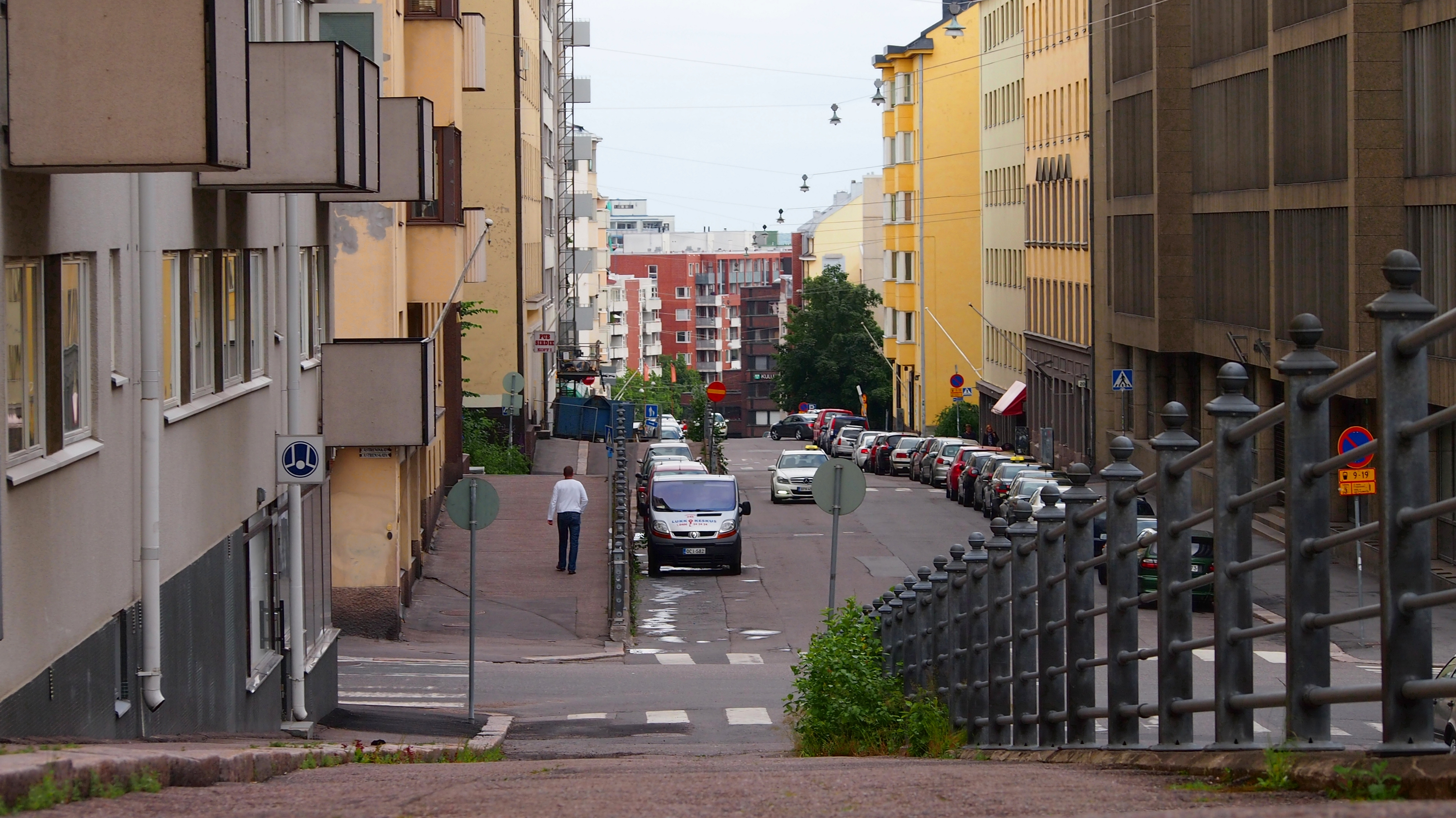 The street Kolmas linja in Kallio, Helsinki, Finland. Direction: South-east. Season: Summer. Year: 2012.